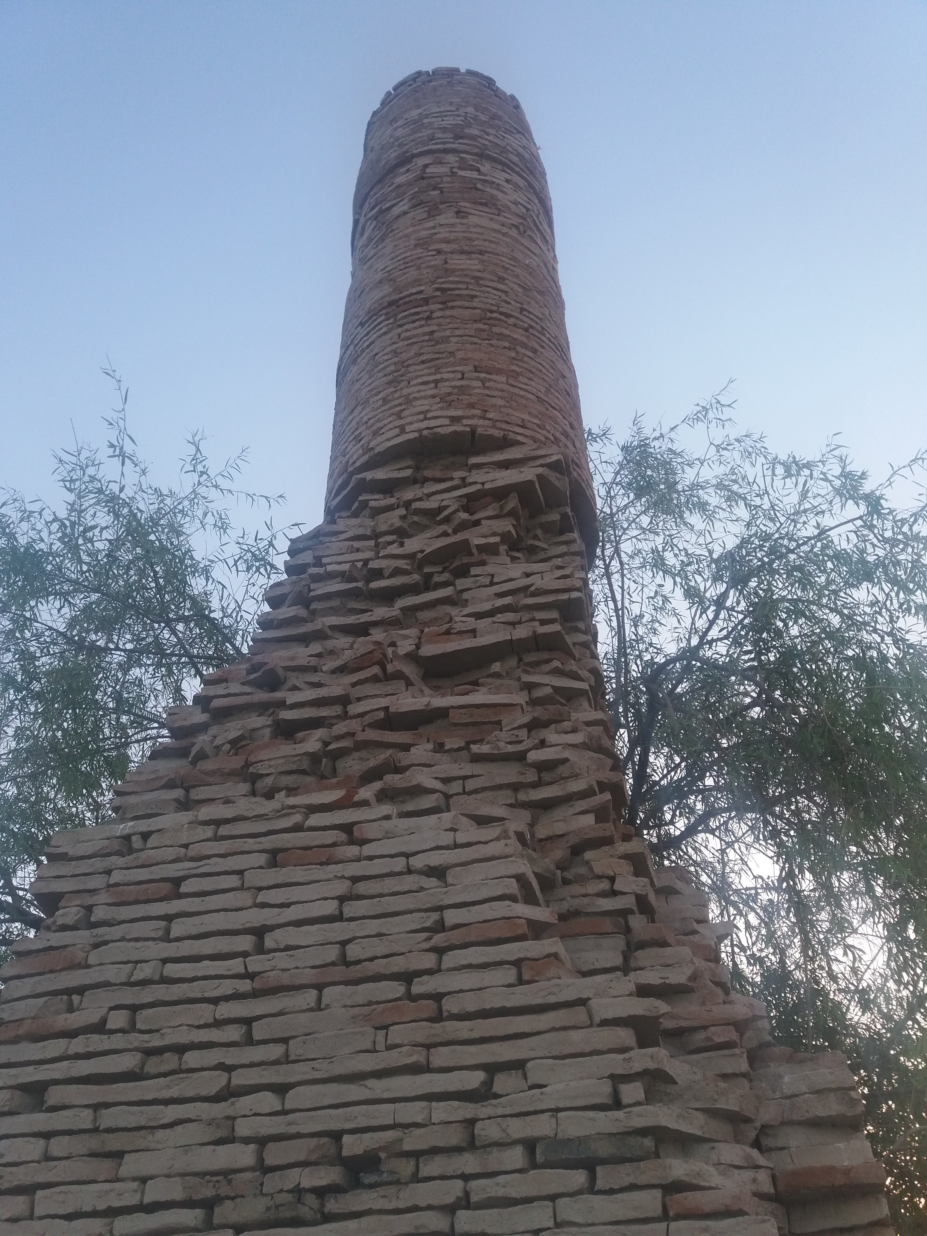 Square Tower This is a photo of a monument in Pakistan identified as the SD-46